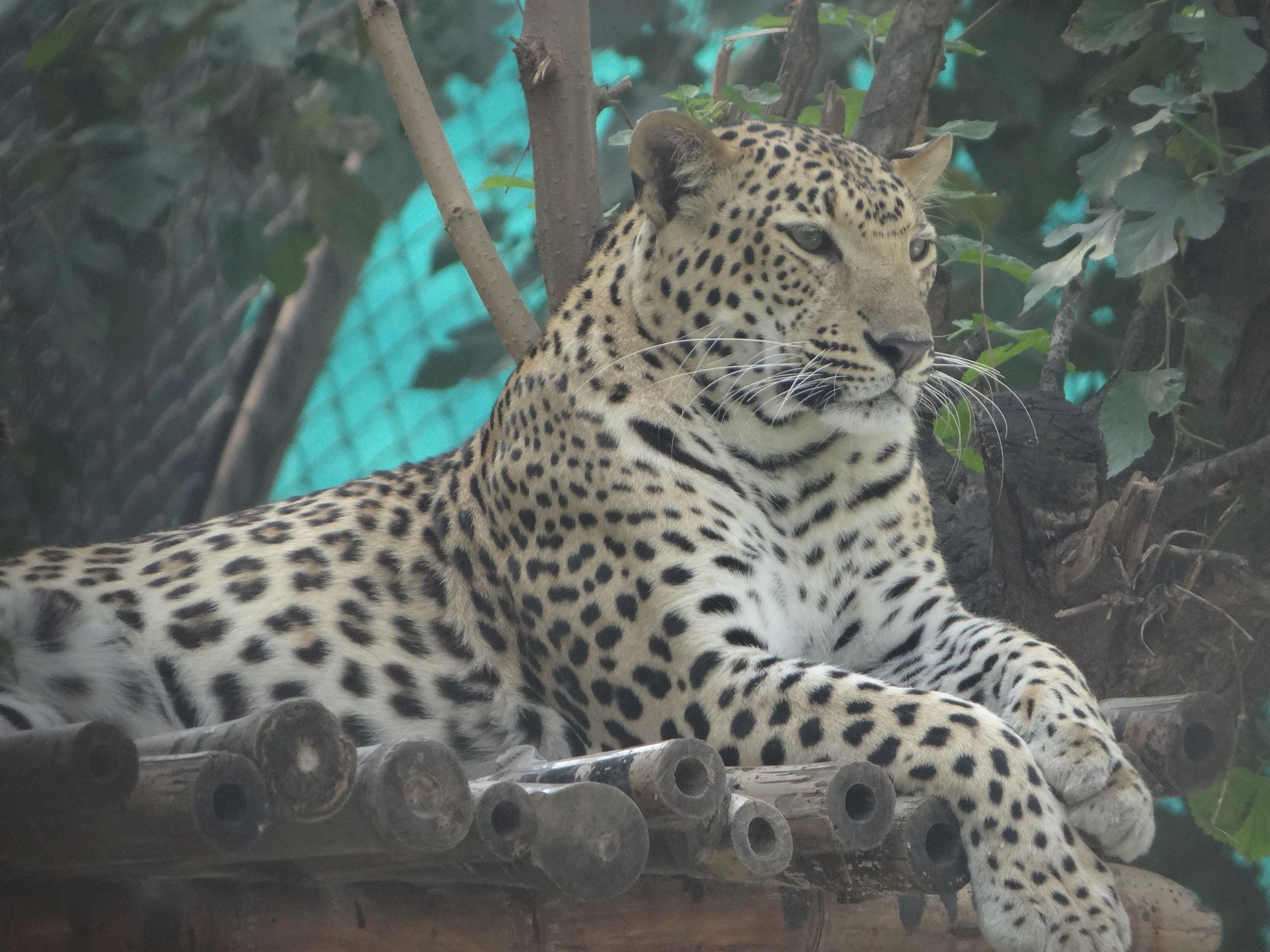 chatbir zoo